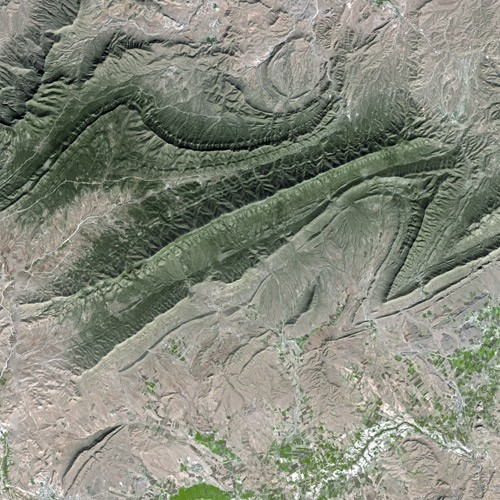 Not the Zibans, but the eastern part of the Ouled Naïl Range, just south of Bou Saâda. The Zibans are located just to the east of Biskra. by SPOT Satellite